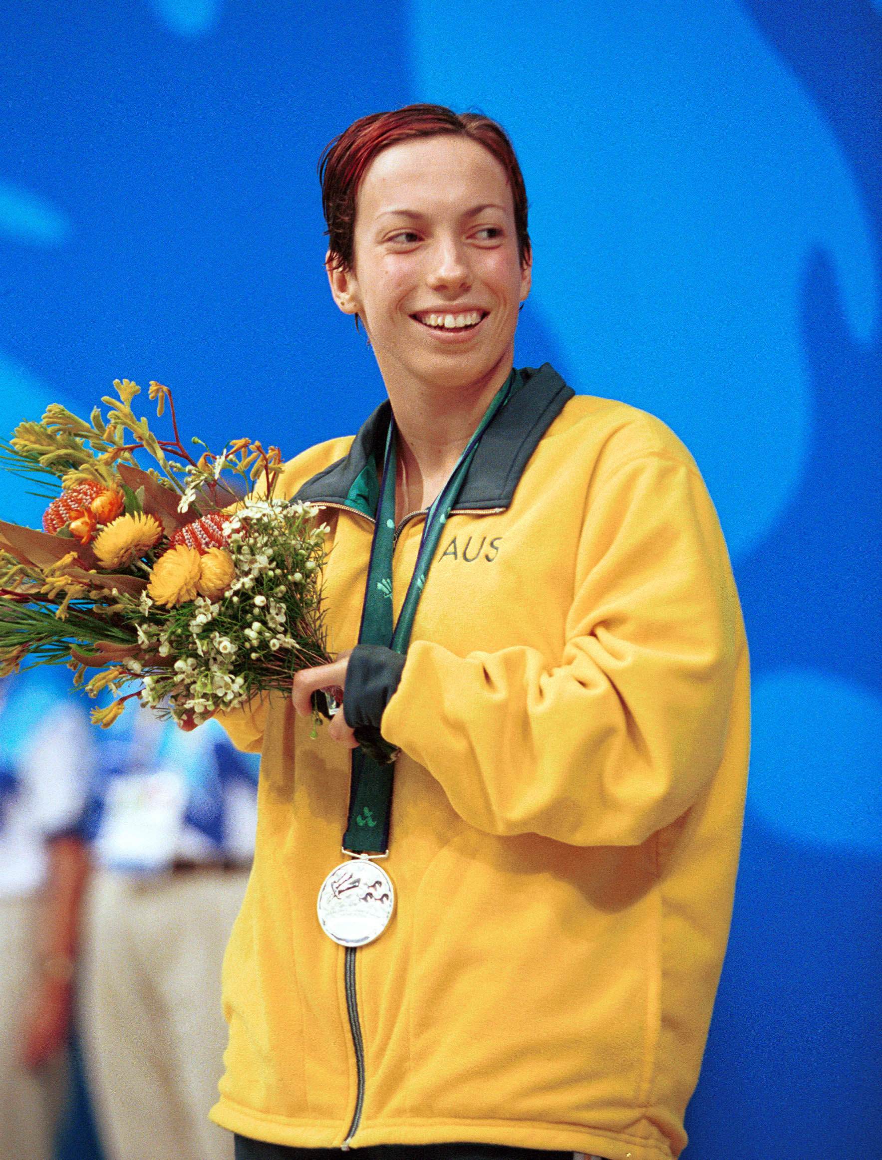 Australian swimmer Elizabeth Wright on the silver medal podium for the 400 m freestyle S6, 2000 Sydney Paralympic Games, Day 04